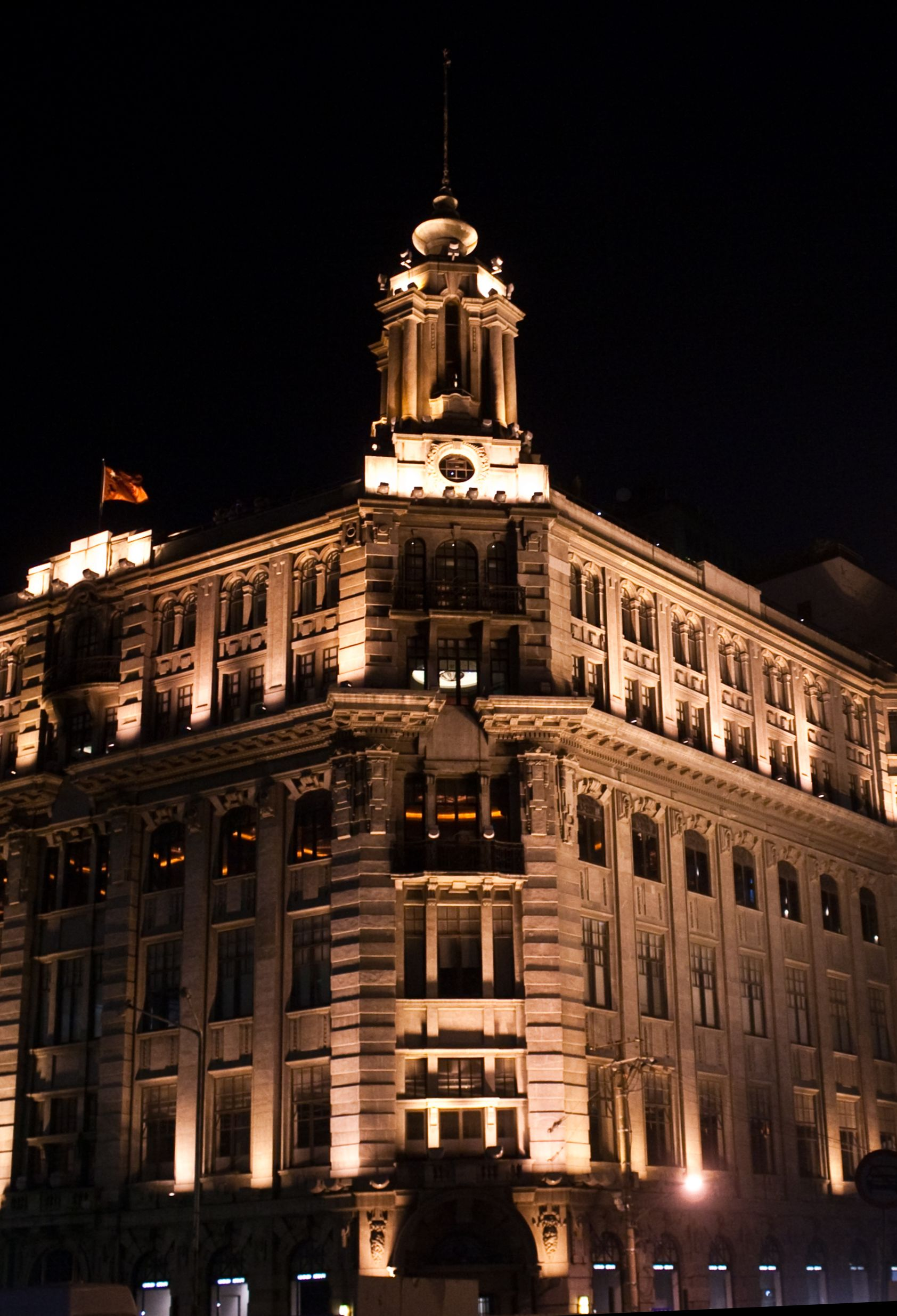 Cropped from File:No. 3 and No. 4, The Bund-crop.jpg Left: No. 3, The Bund. This is the Union Building, completed in 1916. It features a Neo-Renaissance style with some Baroque details. Formerly the home of various insurance companies, “Three on the Bund” is now the location of several of Shanghai’s best restaurants. Right: No. 4, The Bund. This is the Mercantile Bank of India, London, and China building, built between 1916 and 1918.